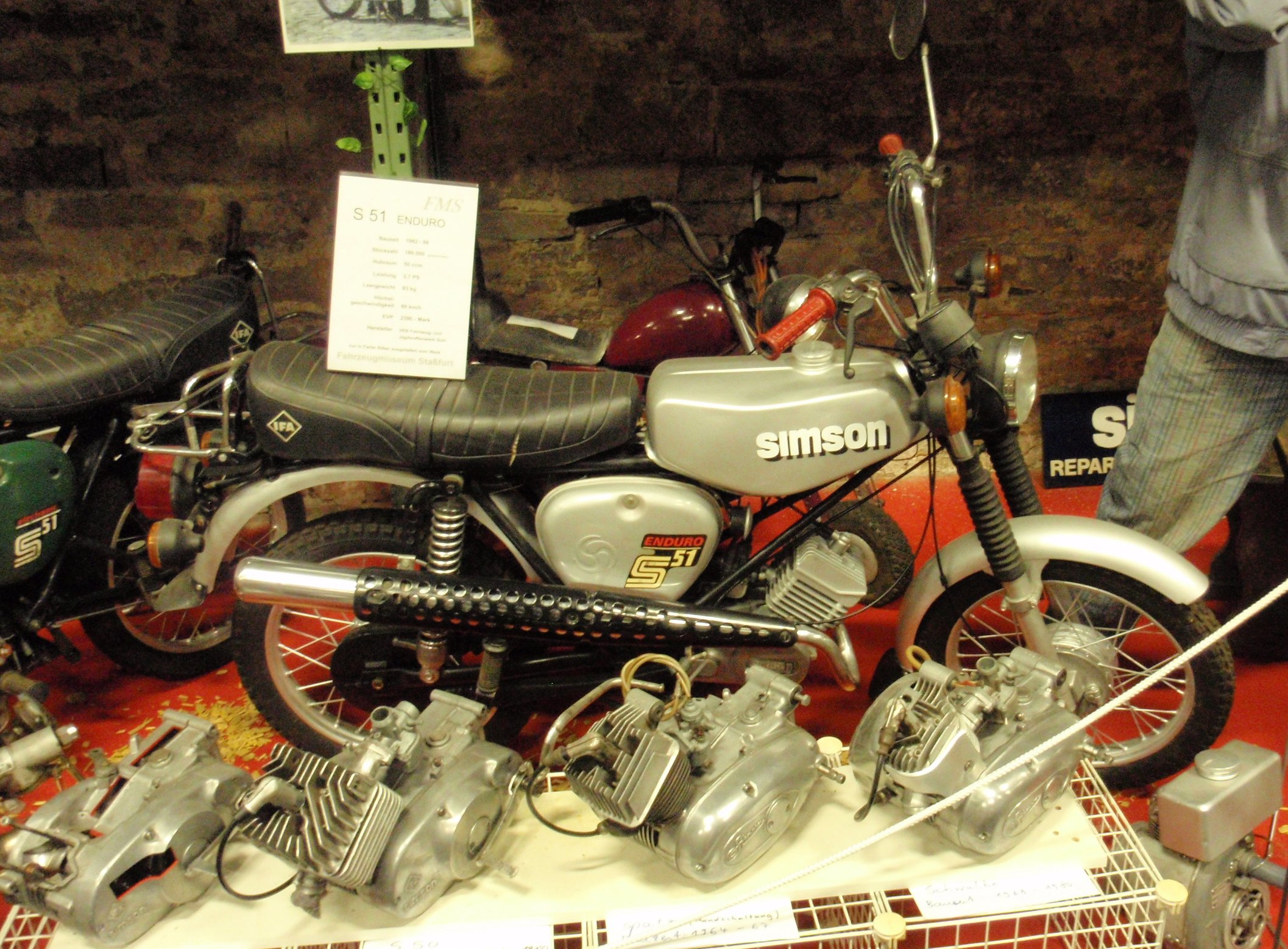 Simson S 51 Enduro